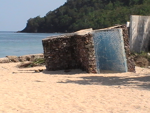 A disused CR, part of Sicogon's legacy as a tourist destination. 2009.